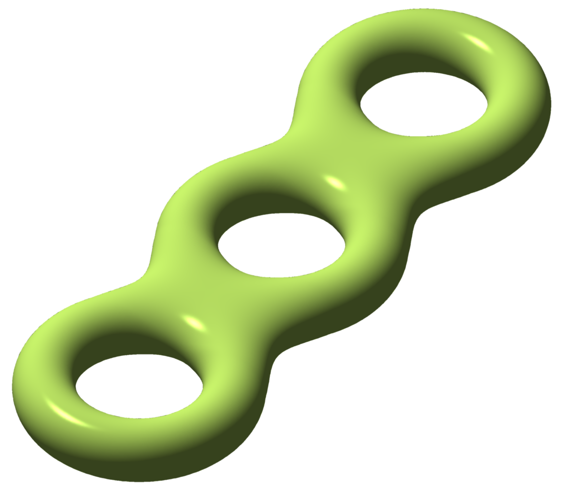 Illustration of a triple torus